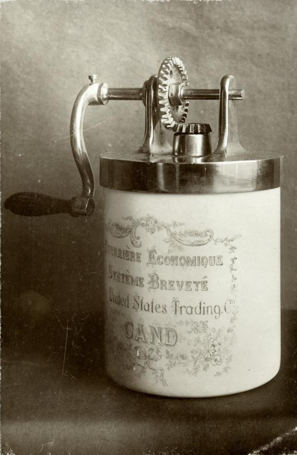 Nationaal Archief / Spaarnestad Photo, SFA022805251 Table Butter churn, invented in 1912.